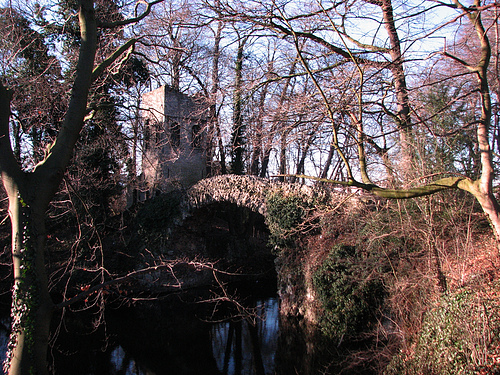 Old fortress in Boekenbergpark, Deurne, Belgium